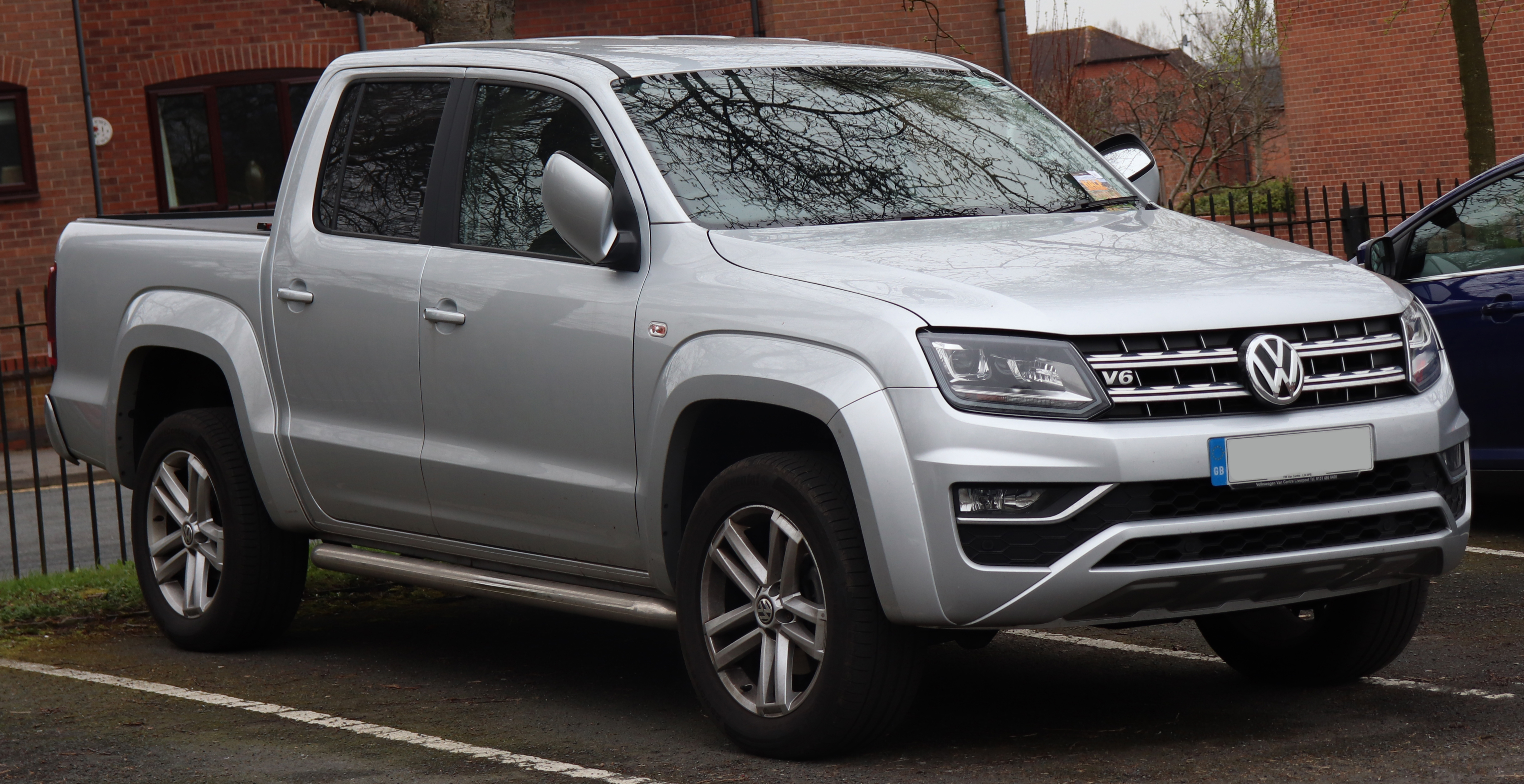 2017 Volkswagen Amarok Highline V6 TDi facelift 3.0 Taken in Warwick